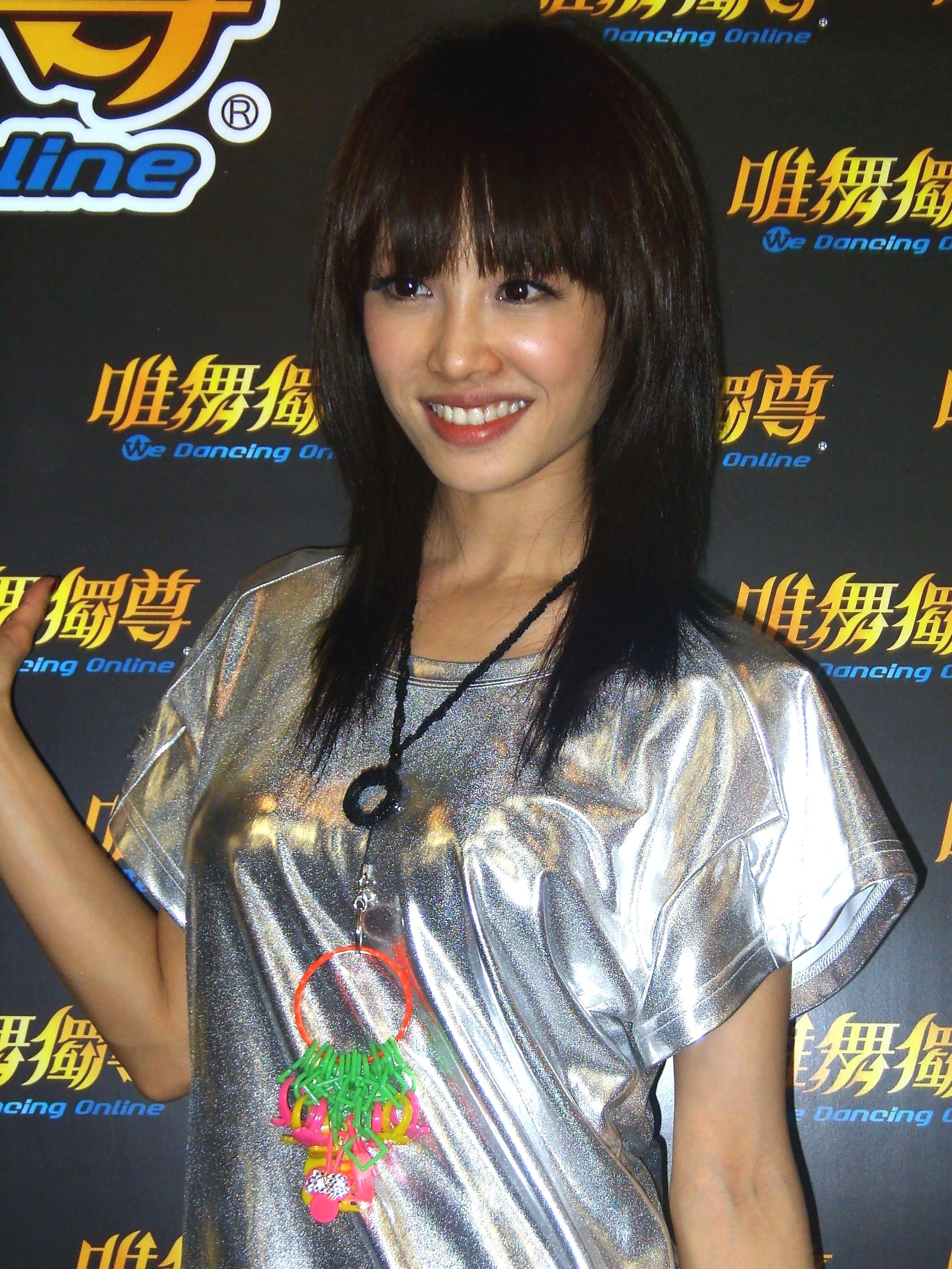 2008 Taipei Game Show: Jolin Tsai at IGS "We Dancing Online" Special Activity.